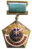 Russian Federation, Ministry of Communications and Mass Media, Title of "WIZARD". Awarded to highly professional employees assigned for 15 years or more in the areas of information technology and communication, for success in improving the telecommunications complex, for the implementation of federal and regional programs of development in communications and informatics.